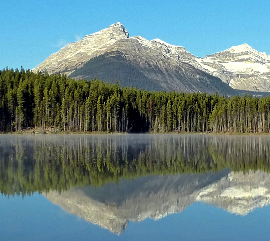 Mount Bosworth seen from Herbert Lake in Banff Park, Canada